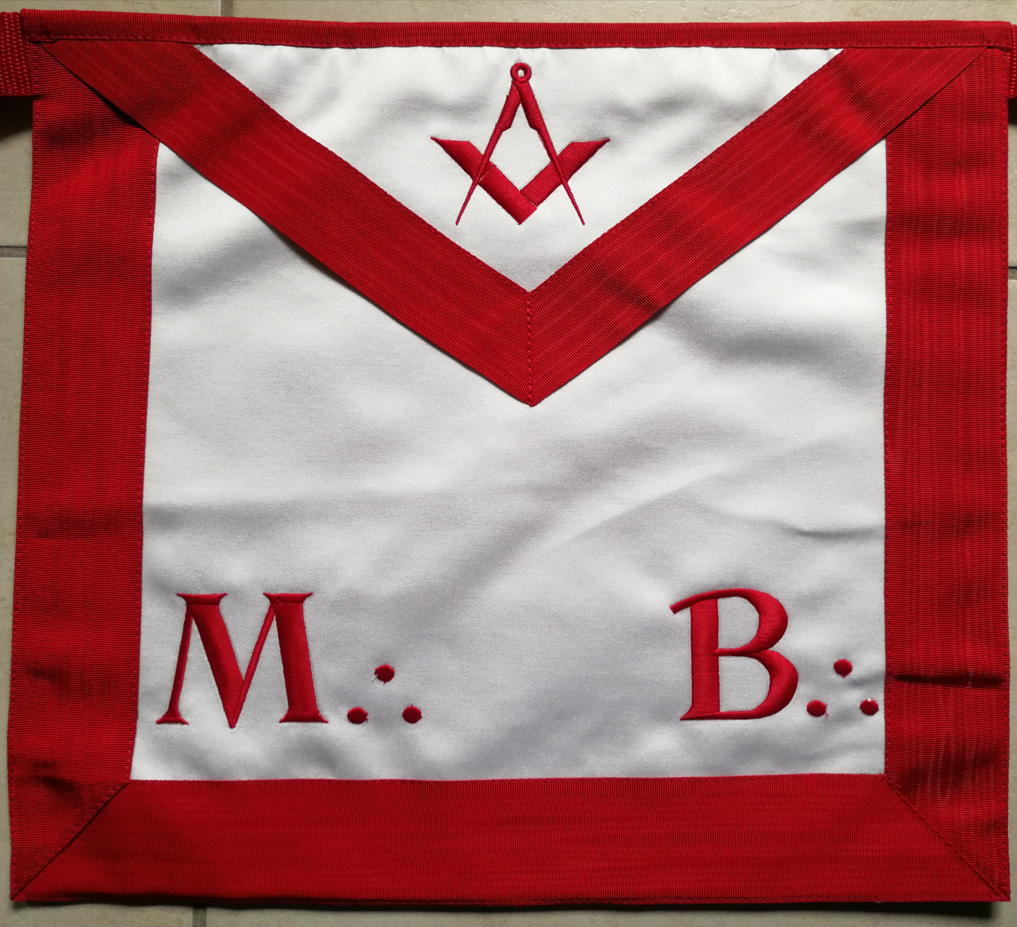 Masonic apron (Master) - A.S.S.R Working